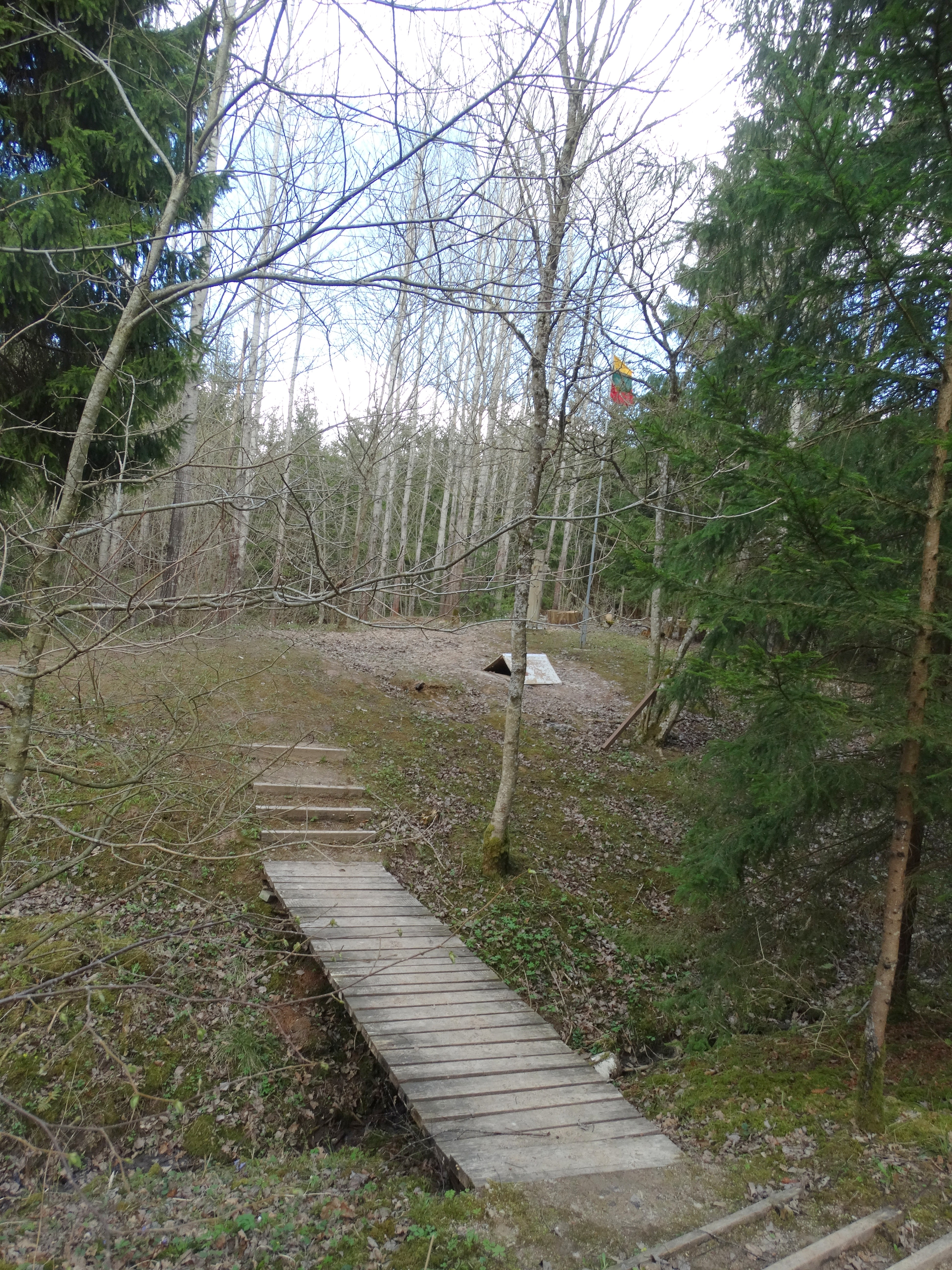 Memorial to partisans, Daugėliškiai forest, Raseiniai district, Lithuania